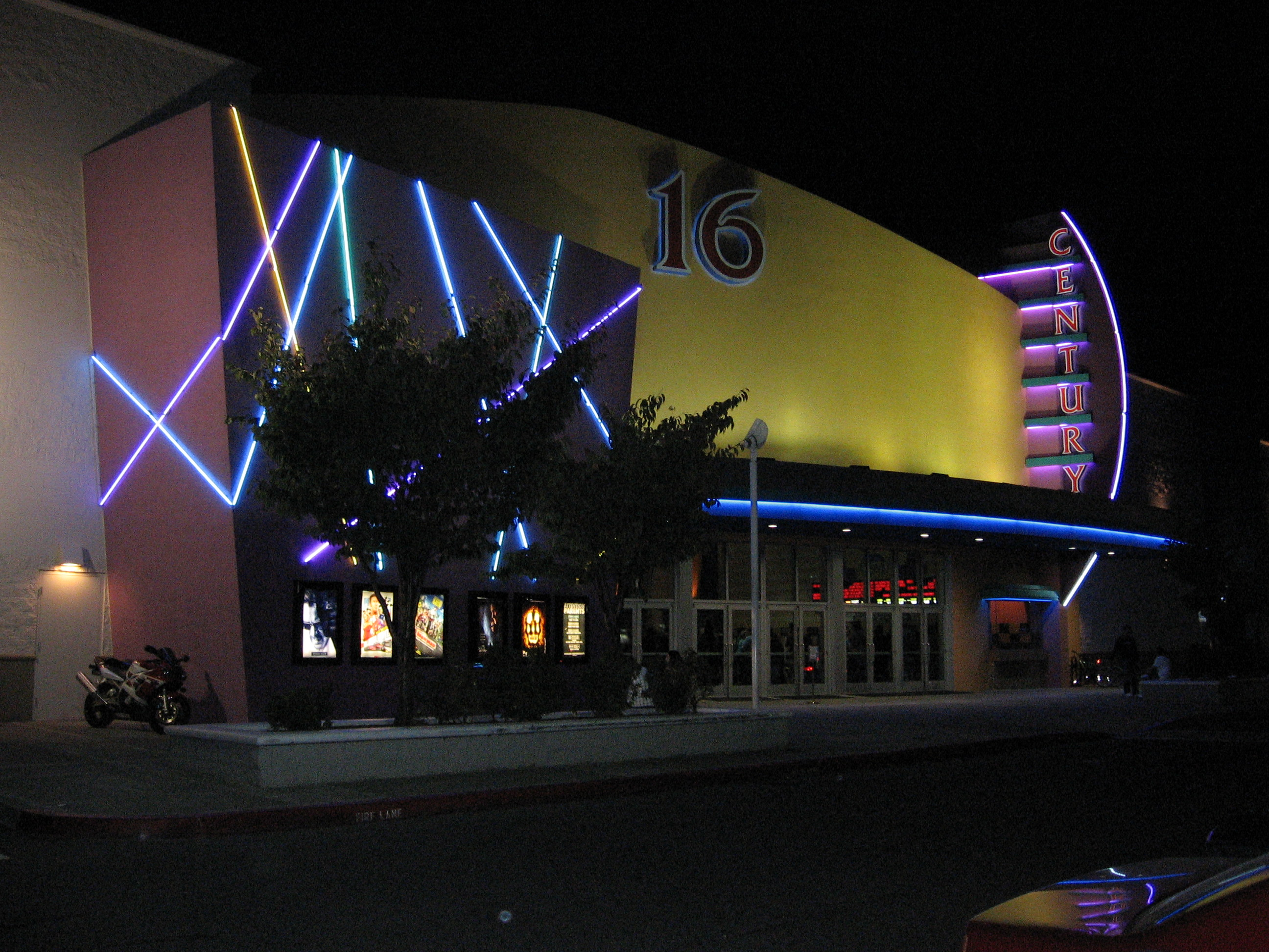 A Picture of a Century Theater located in Portland, Oregon. Currently owned by Cinemark USA